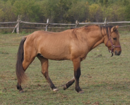 Lac La Croix Indian Pony stallion - Woobang (Ojibway for - tomorrow)